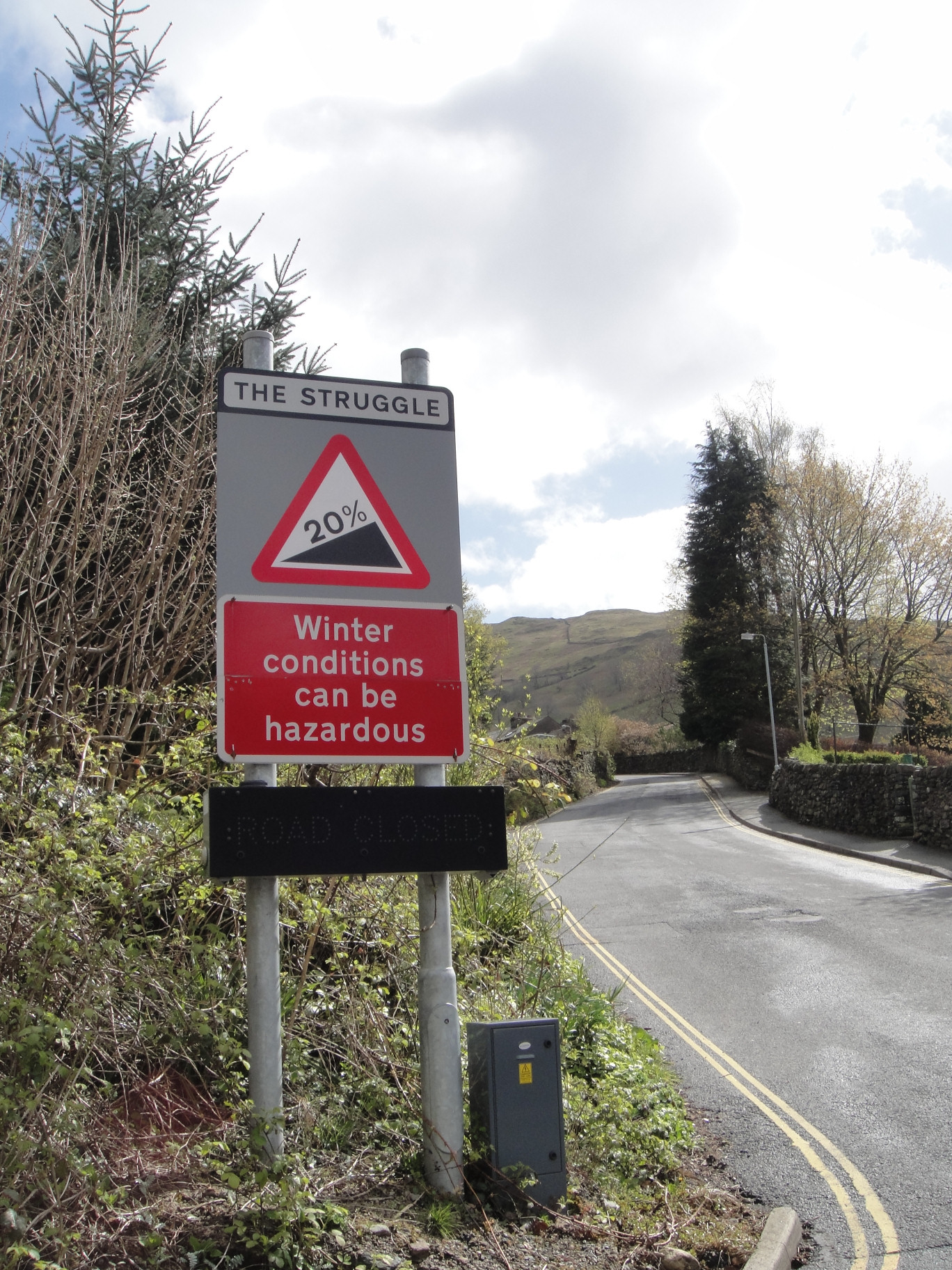 Road sign at the bottom of The Struggle, indicating its steep gradient.